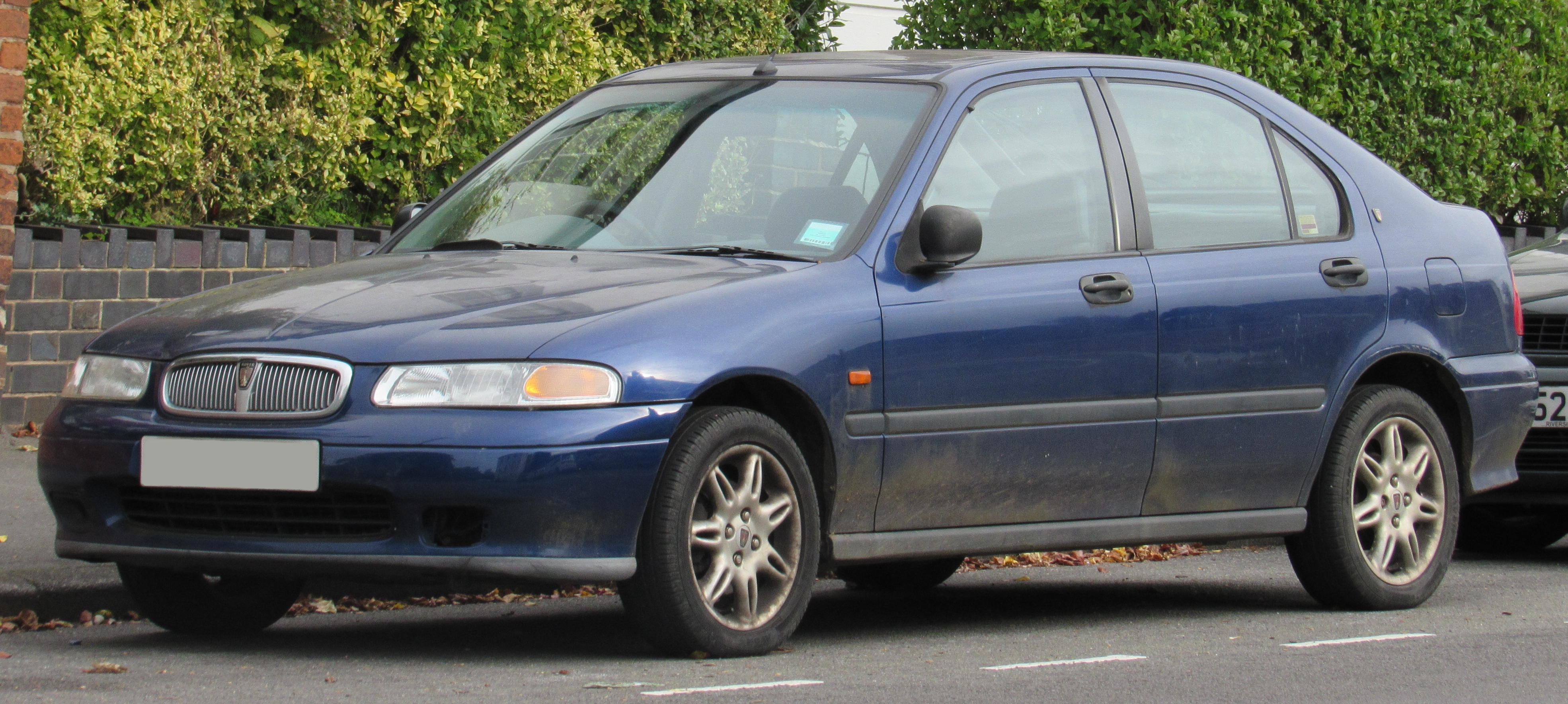 1997 Rover 416S 1.6 Front Taken in Leamington Spa